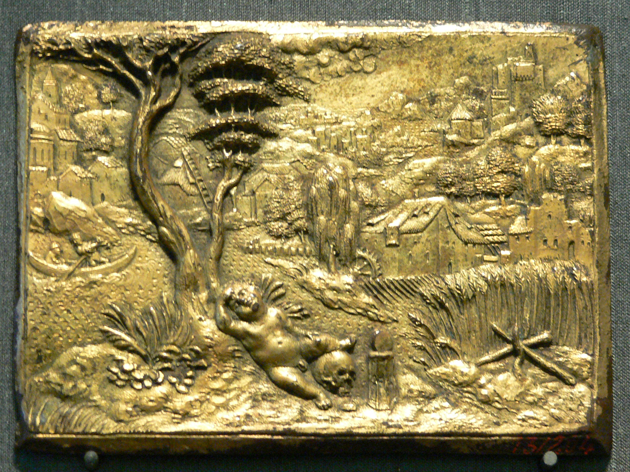 Peter Flötner: Vanitas, Nuremberg 1535–1540, gilded bronze Bayerisches Nationalmuseum München, Inv. Nr. 13/204